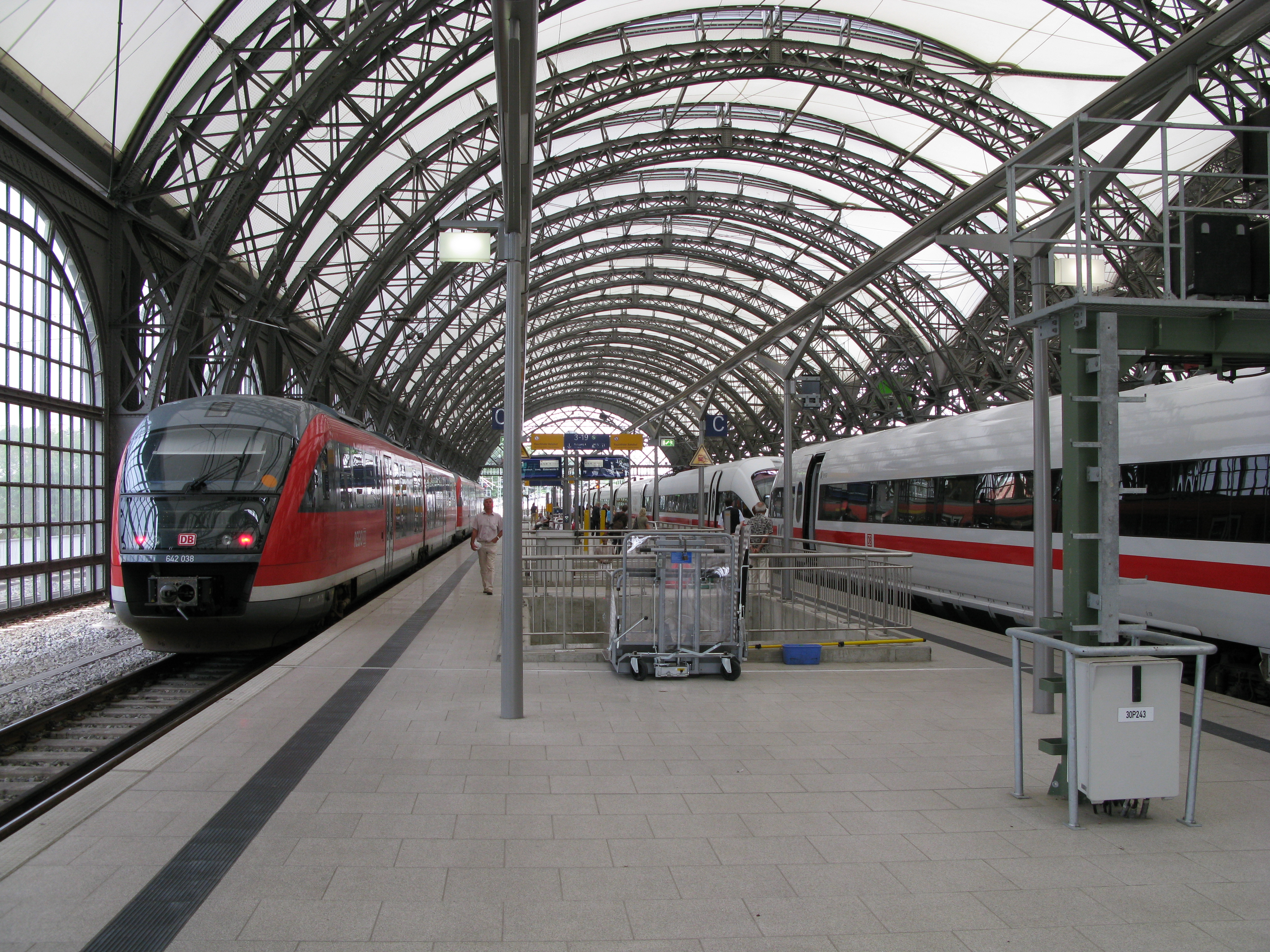 south platforms of Dresden Main station